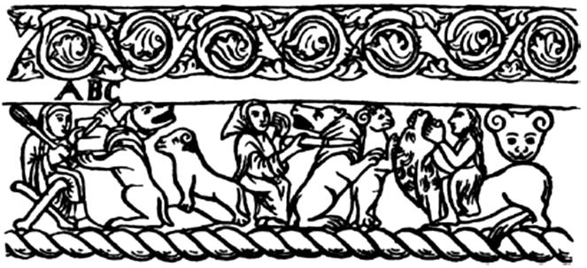 The wolf learns his ABC, from a 12th century capital in Freiburg Minster (Breisgau)